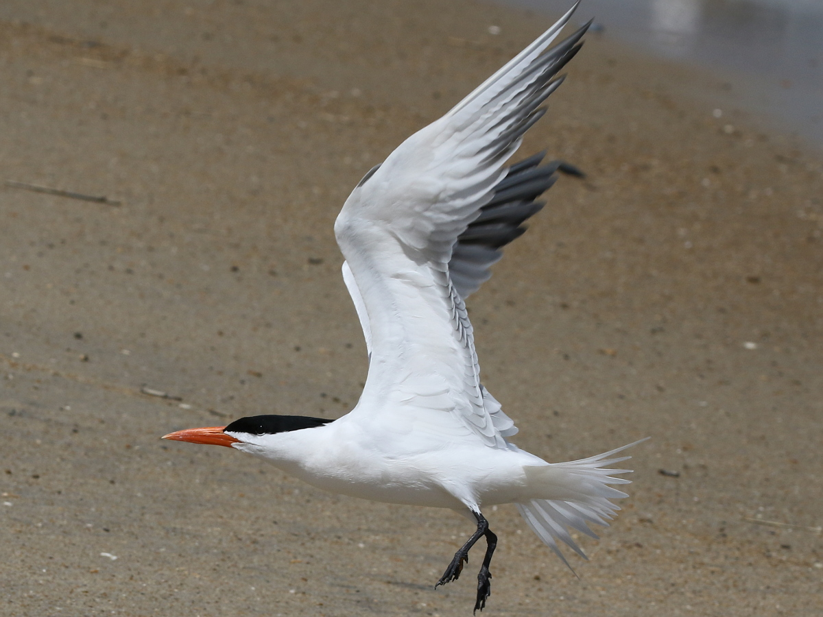 Royal tern showing white underparts Rodanthe Public Beach, North Carolina